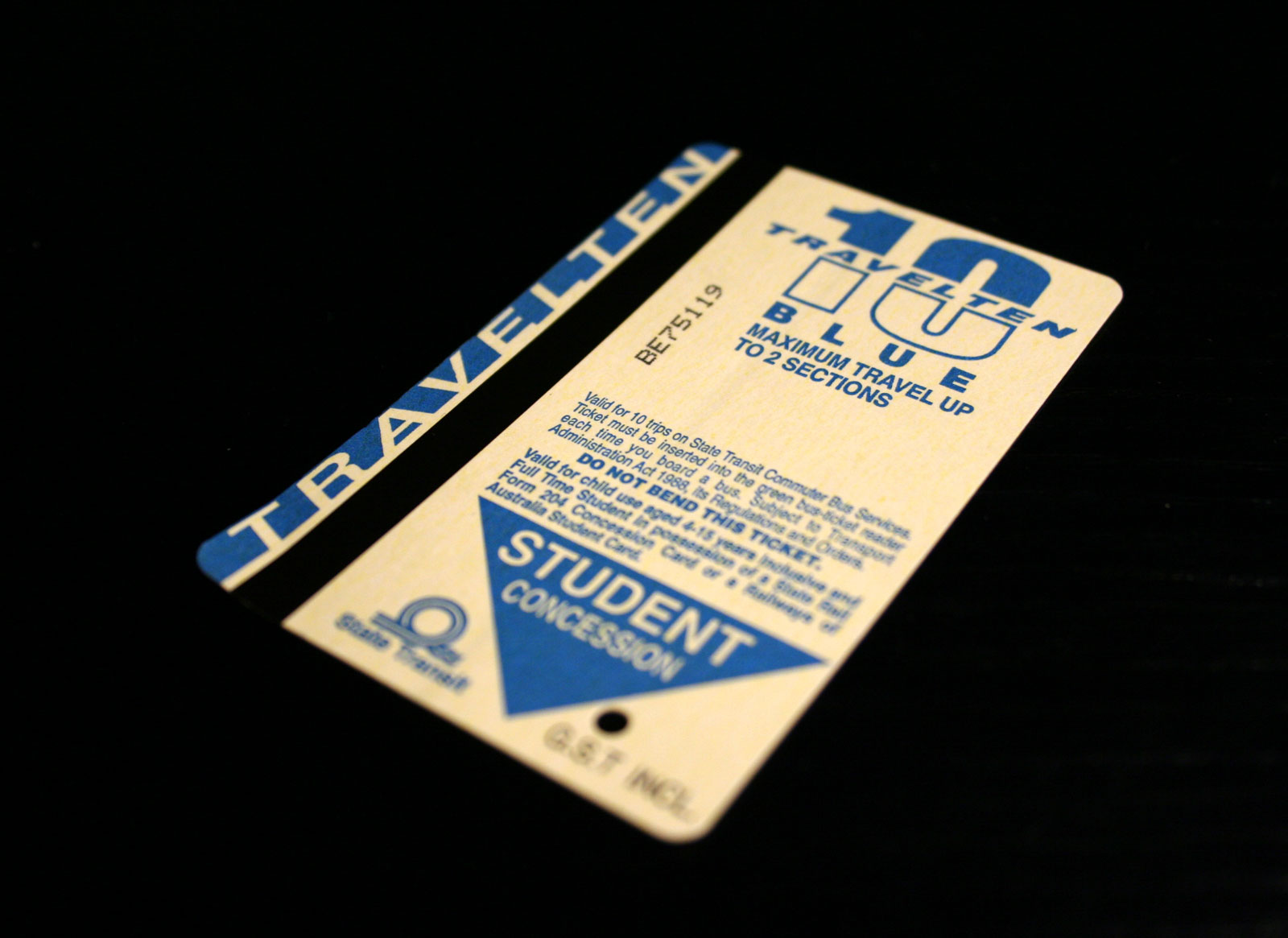 A blue (1-2 sections) concession TravelTen used to pay fares on Sydney Buses. Taken by Enoch Lau on 22 July 2006. As a courtesy, please let me know if you alter this image or this image description page. Original filename was IMG_0355.JPG.